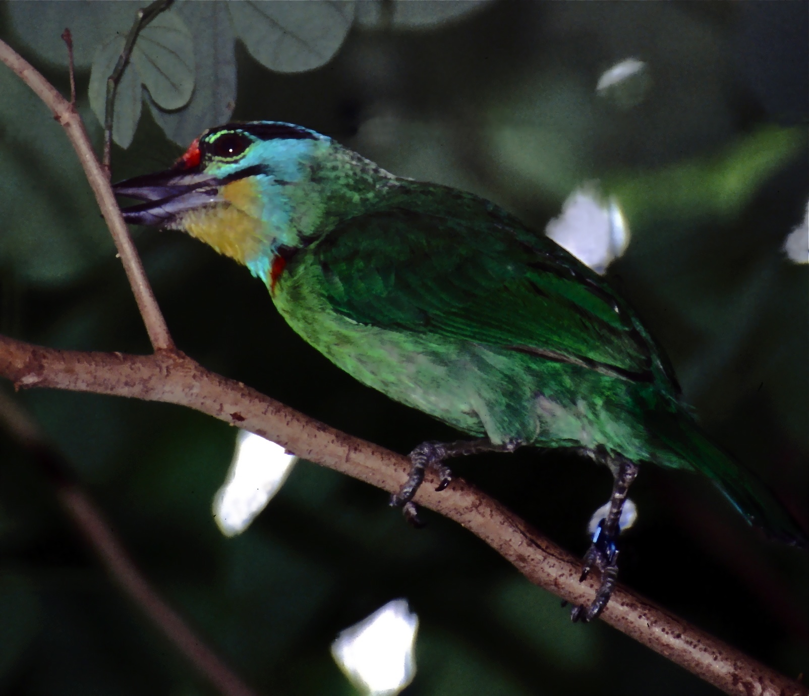 Bird Park, Wisata Bogor, Java, INDONESIA Scanned Slide from 2003